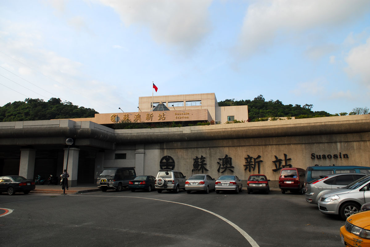 Suaosin Station（Suao New Station） is the link station of TRA's Yilan Line and North-Link Line; these two lines are both the composition parts of Taiwan's main eastern rail line. Suaosin Station is the north terminal of North-Link Line, but not the south end-point of Yilan Line.